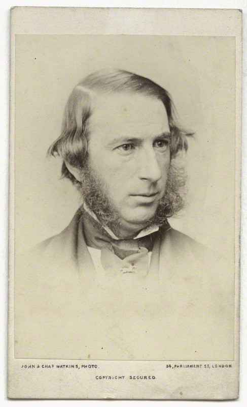 Portait of John George Dodson, 1st Baron Monk Bretton